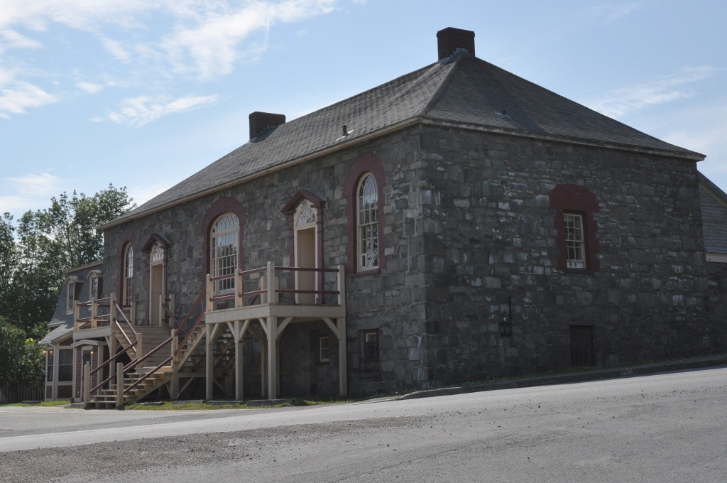 Harbour Grace Court House National Historic Site of Canada, Harbour Grace, Newfoundland.